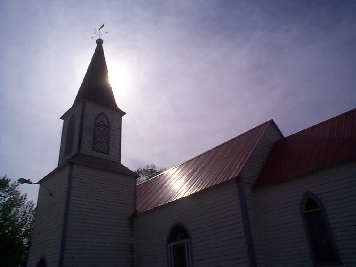 Saint Thomas' Anglican Church, an historic Carpenter Gothic style Anglican church edifice built by the Hudson's Bay Company in Moose Factory, Ontario, Canada. Construction began in 1864.